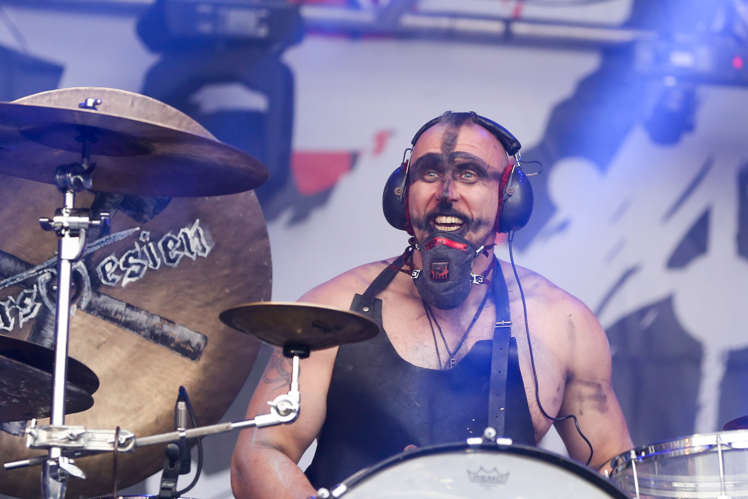 Przystanek Woodstock in 2016.